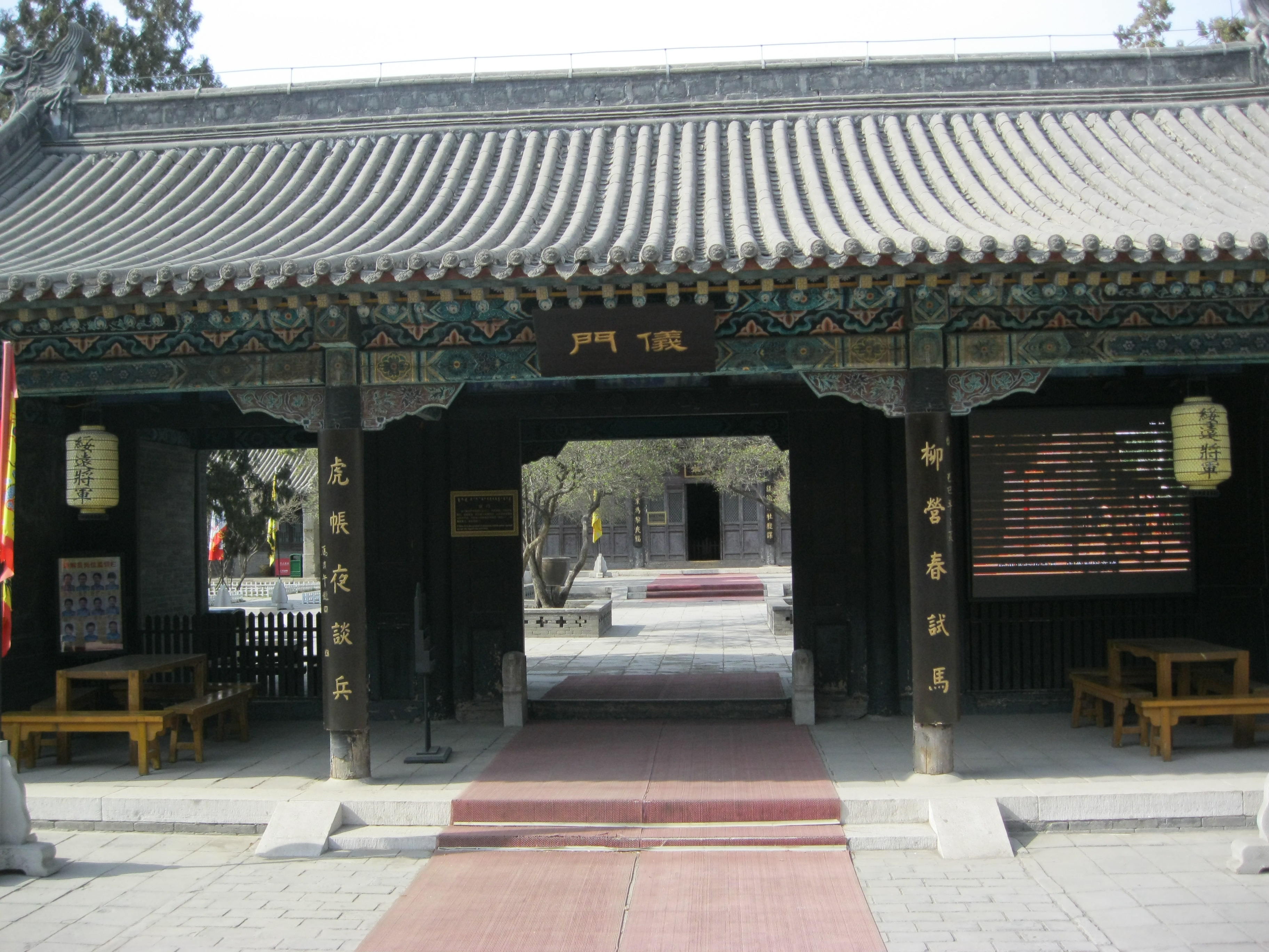 The greeting gate